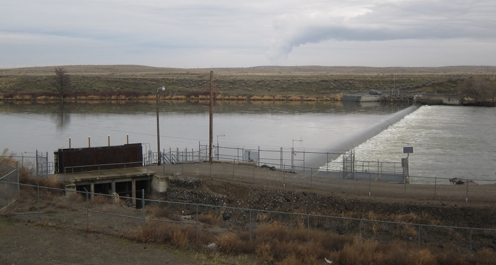 Wannawish Dam (formerly Horn Rapids Dam) from Harrington Road, January 12, 2015.